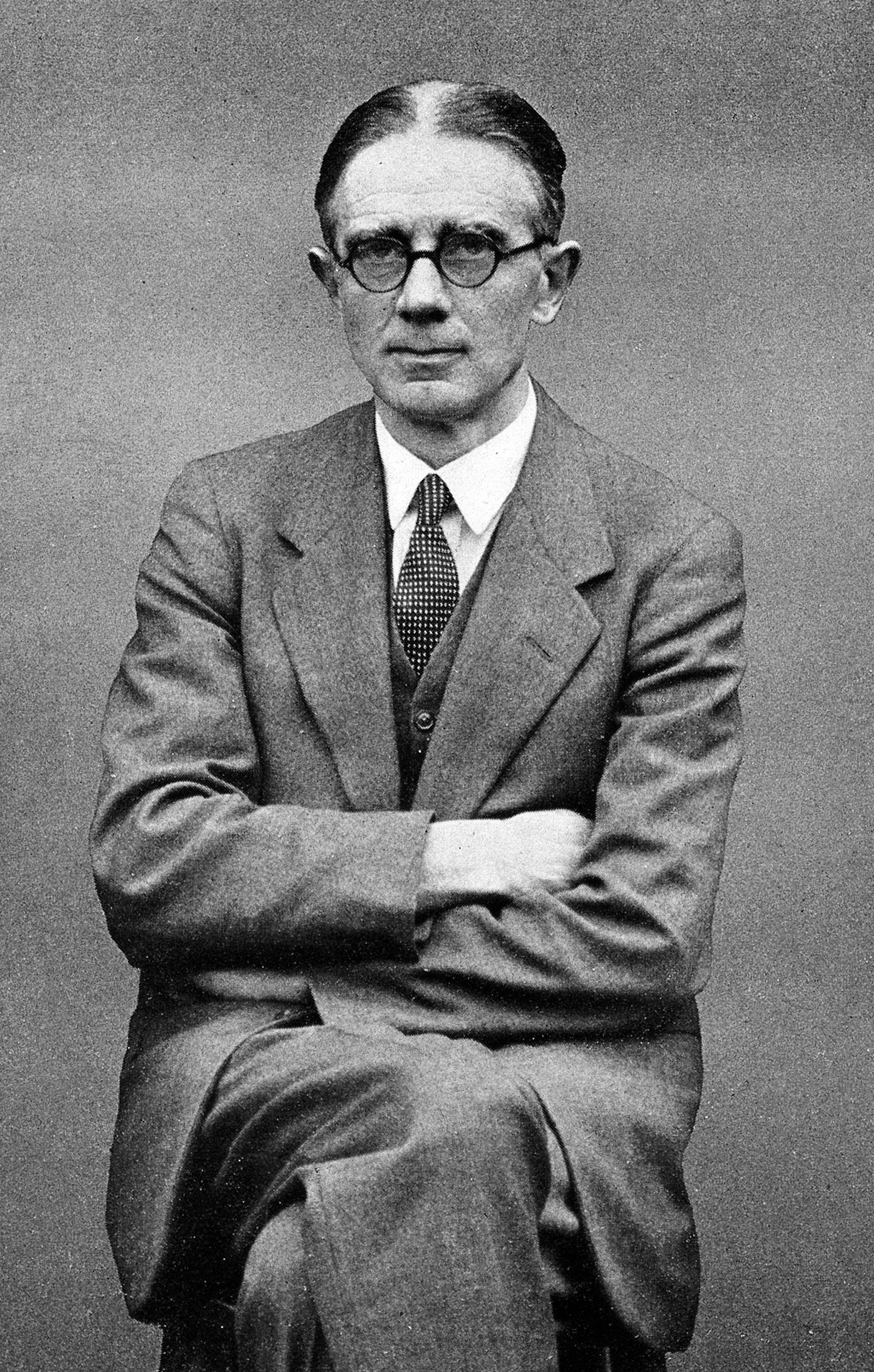 William Whiteman Carlton Topley. Photomechanical print after Hills & Saunders, Cambridge, 1938.